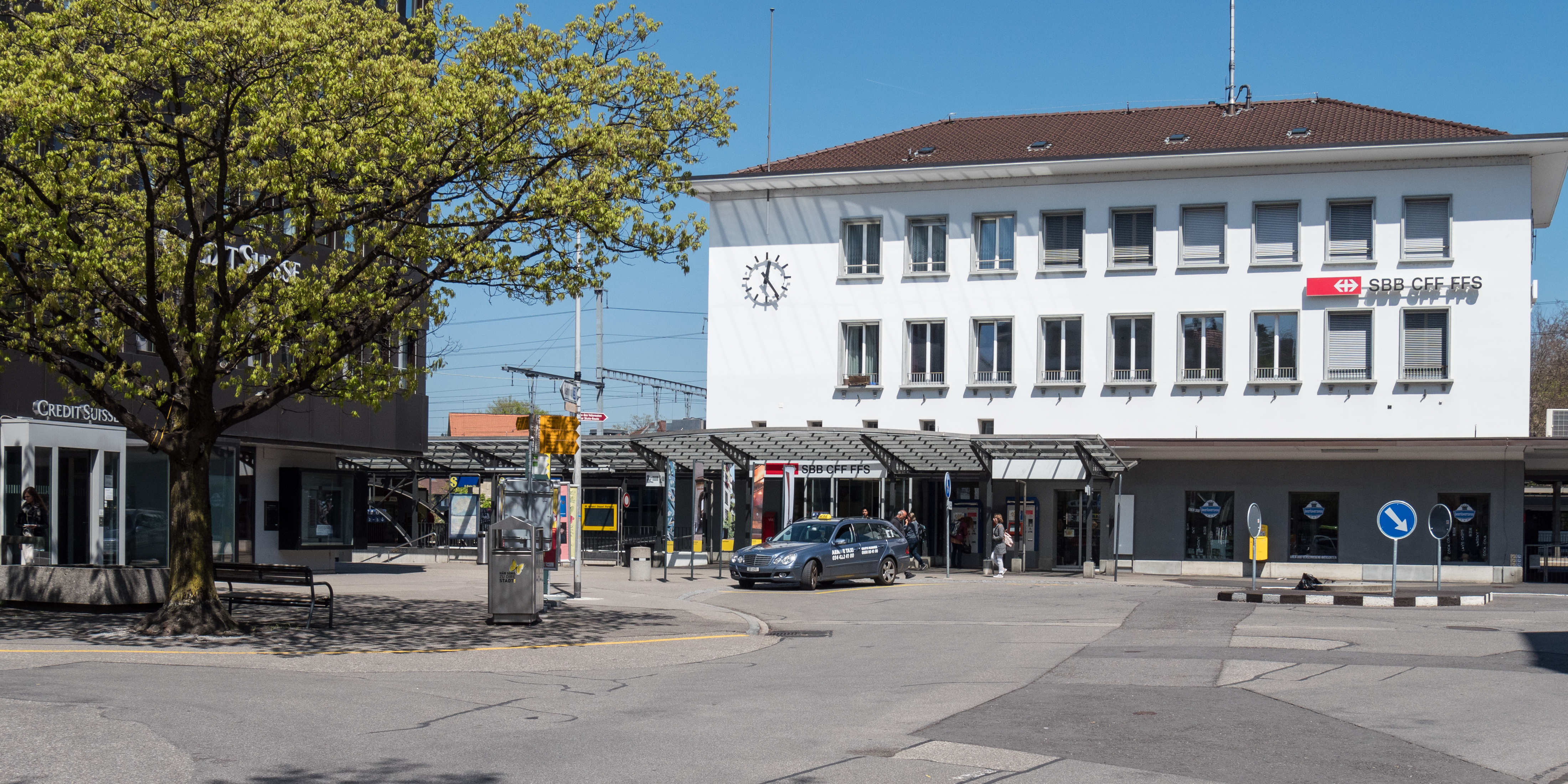 Burgdorf train station, canton of Berne, Switzerland.